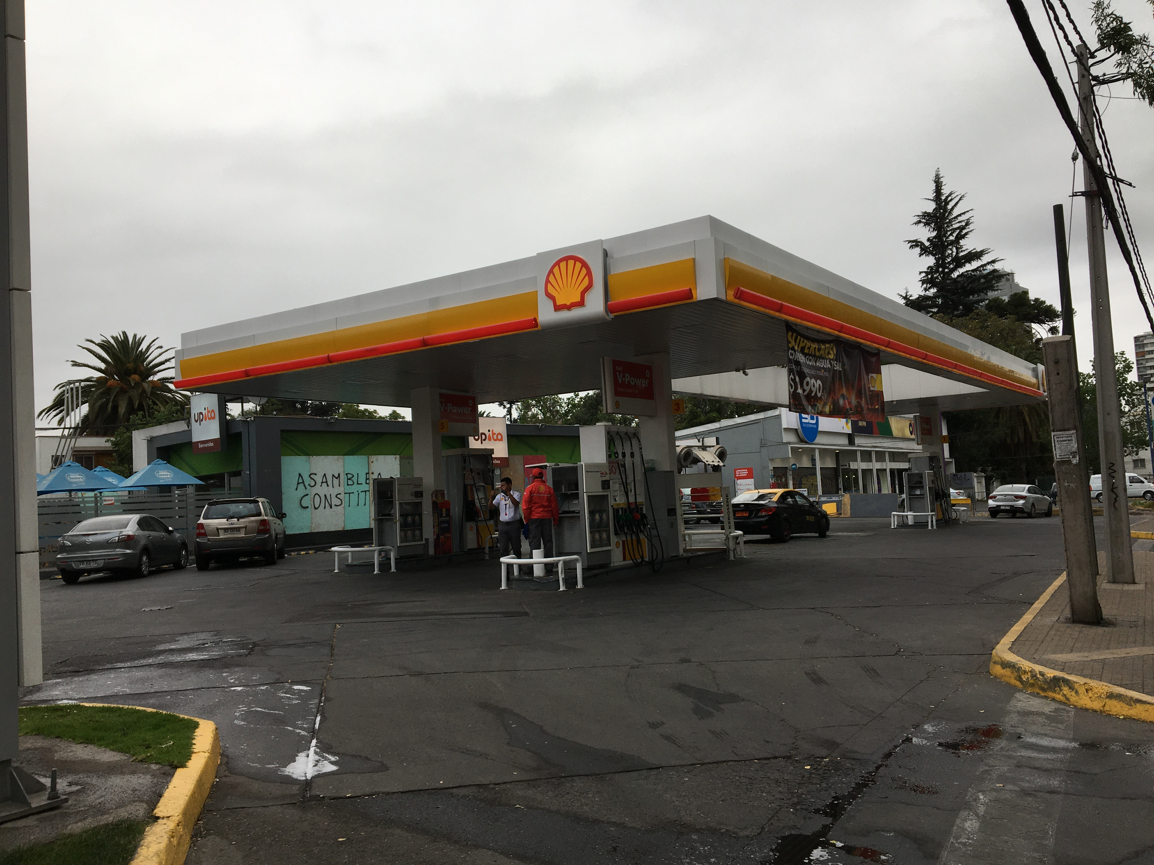 Shell Santiago CL